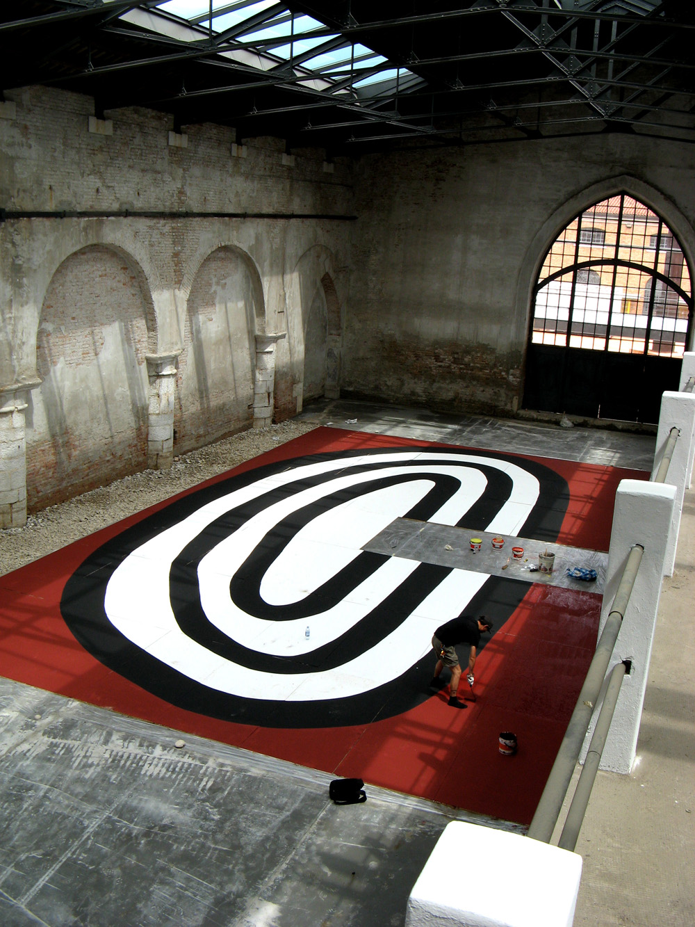 108 (artist) working at the biennale di venezia (2007)